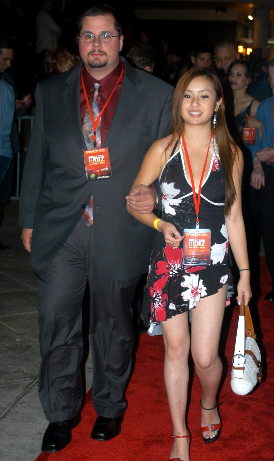 Tia Tanaka at the XBiz Awards, November 17, 2005